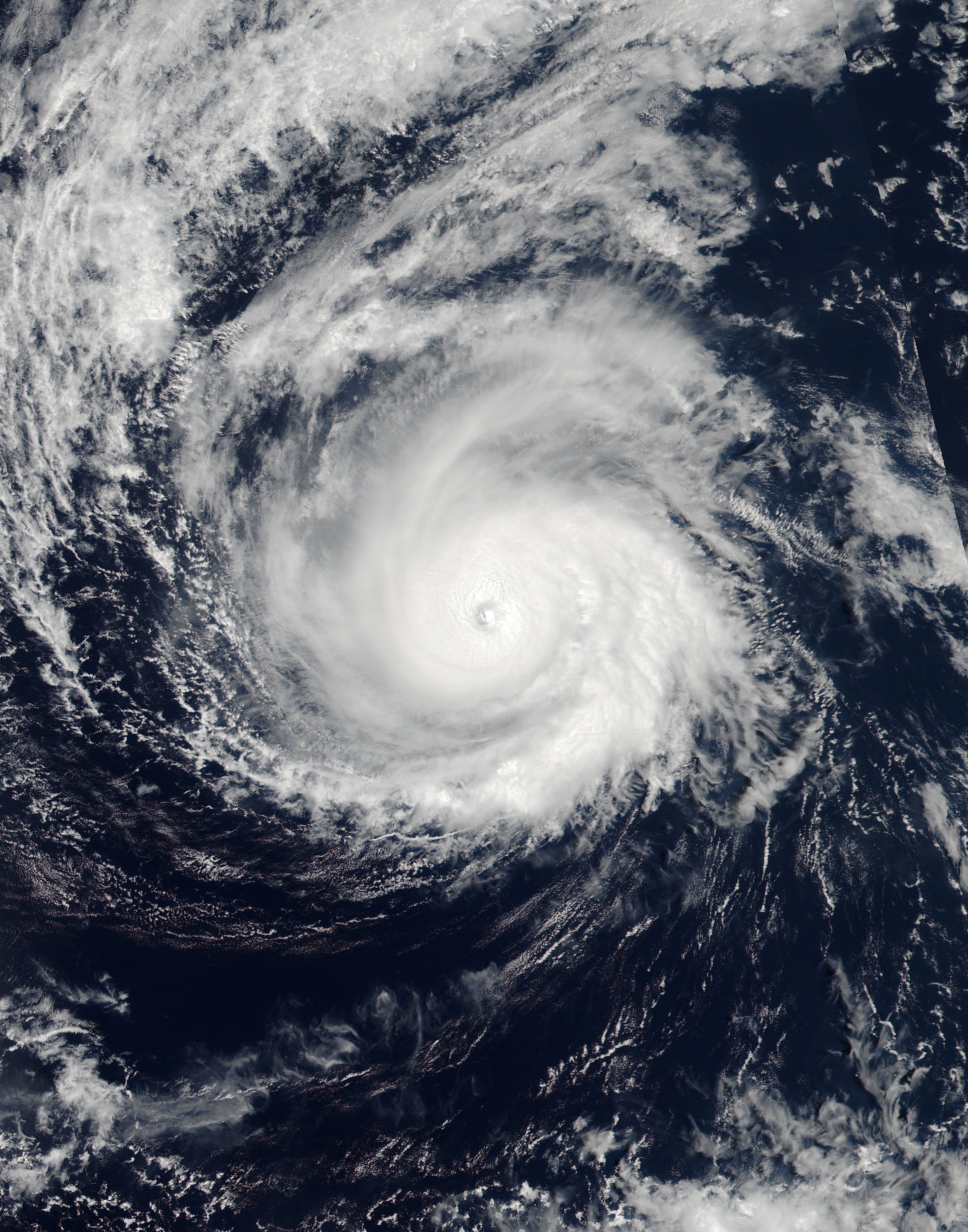 Hurricane Madeline (14E) in the Pacific Ocean